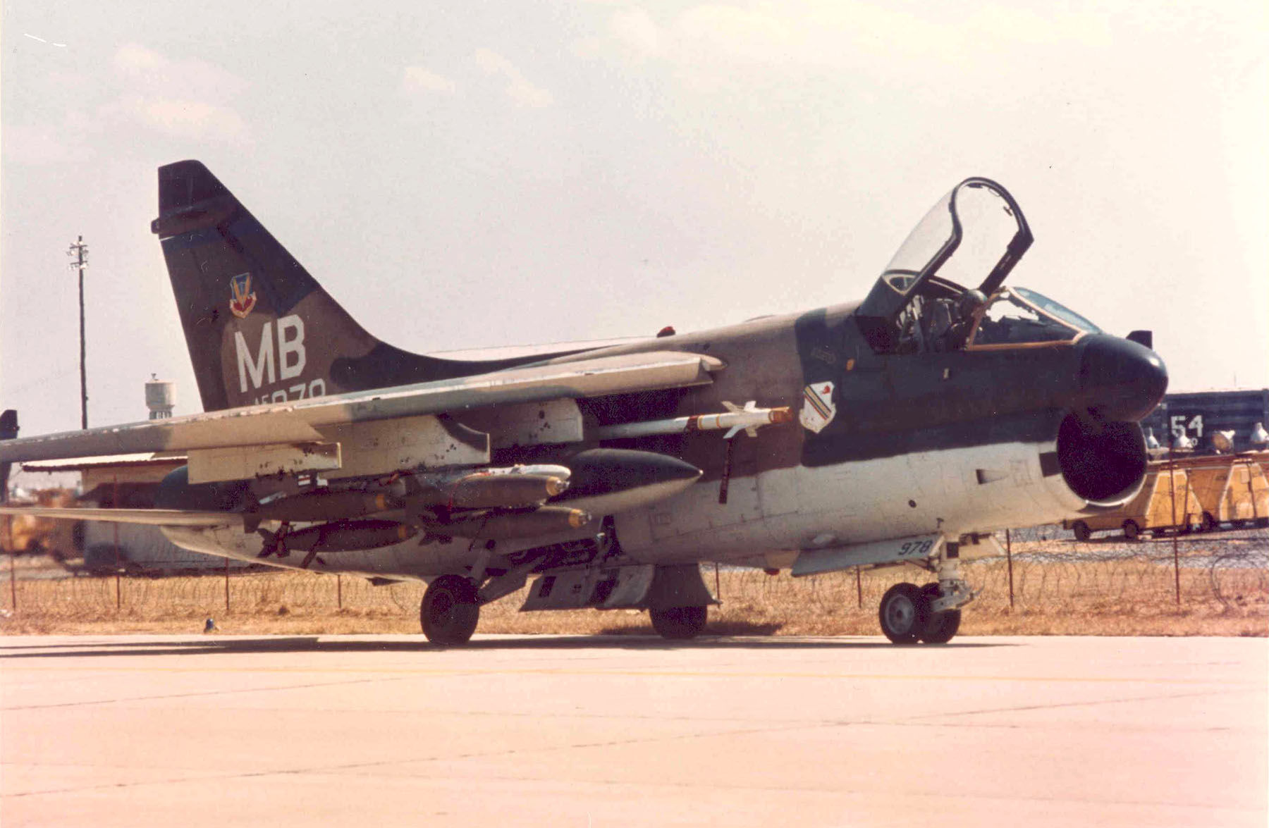 356th Tactical Fighter Squadron Ling-Temco-Vought A-7D-8-CV Corsair II 70-978, shown at Korat Royal Thai Air Force Base, photo probably taken in late 1972. Returned to the United States in 1974. * 1972: Delivered to 354th Tactical Fighter Wing/356th TFS, Myrtle Beach AFB, SC (c/n D-124) Transferred to 124th Tactical Fighter Squadron, IA Air National Guard, 1977 Transferred to 125th Tactical Fighter Squadron, OK Air National Guard, 1981 Transferred to to AMARC as AE0182 Jul 21, 1992 Disposition:01-MAY-97 / To Fritz Enterprises, Taylor, MI. (Actually to HVF West yard, Tucson). Scrapped.